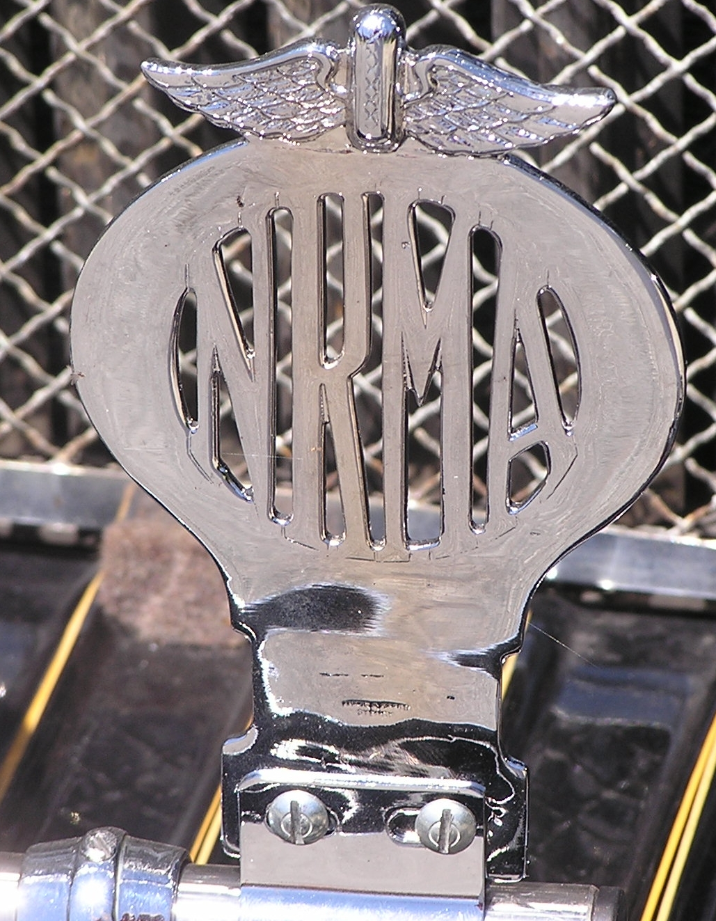 NRMA Badge attached to the front of a Rolls Royce Phantom (circa 1936) photographed in front of the Canberra Hyatt Hotel by AYArktos